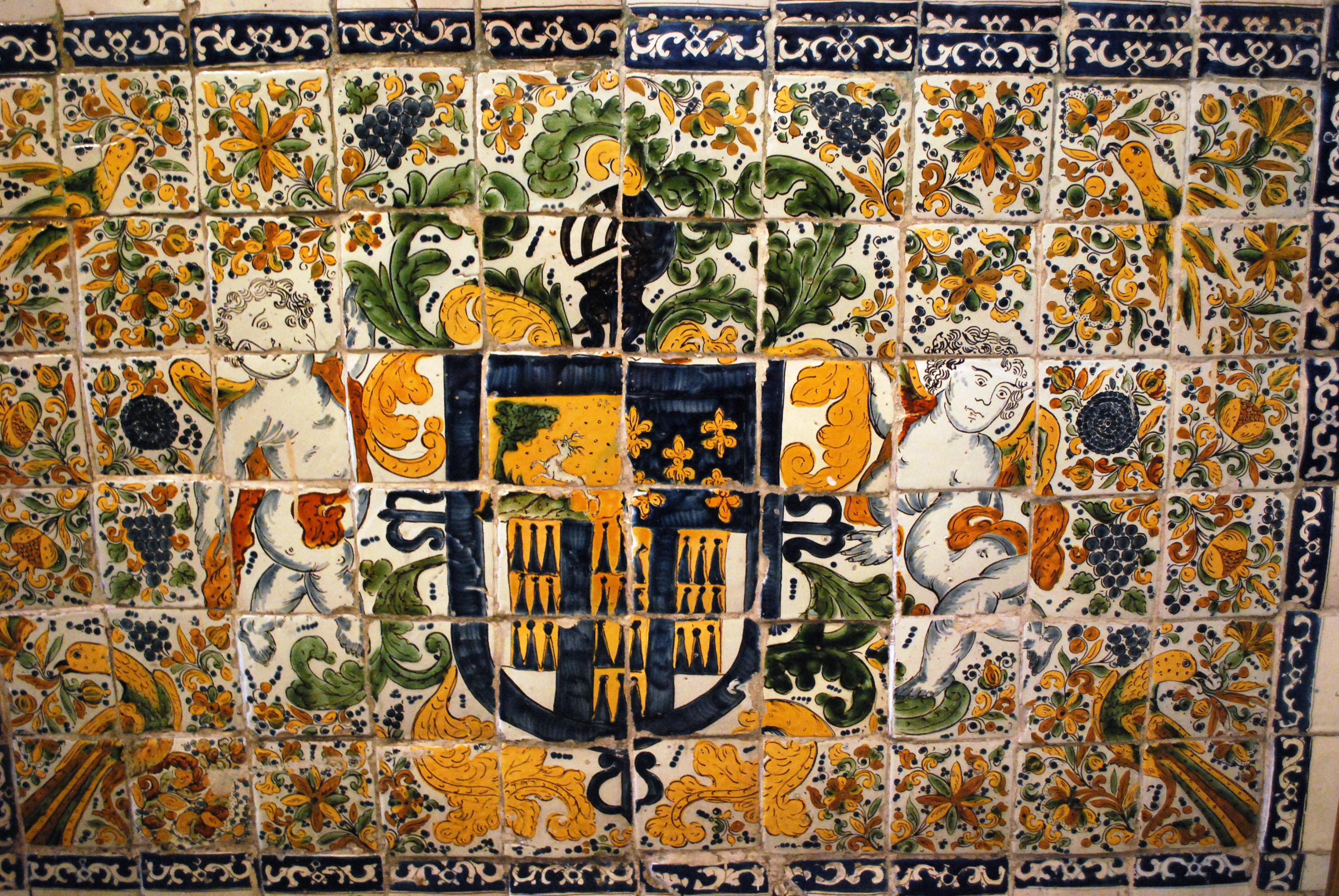 Decorative tilework with cherubs in the main stairwell of the Casa de Azulejos in the historic center of Mexico City